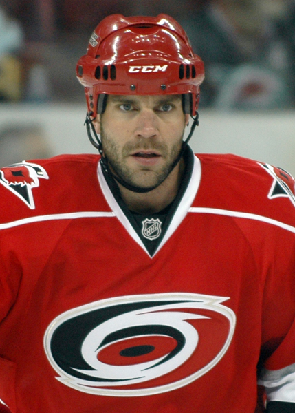 Niclas Wallin of the Carolina Hurricanes skates during warmups in a game against the Buffalo Sabres on April 9, 2009.